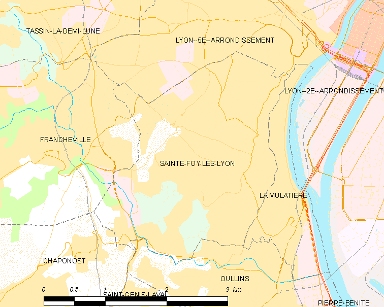 Map of French municipality